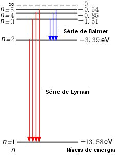 Energy level and transitions. Hydrogen atom.